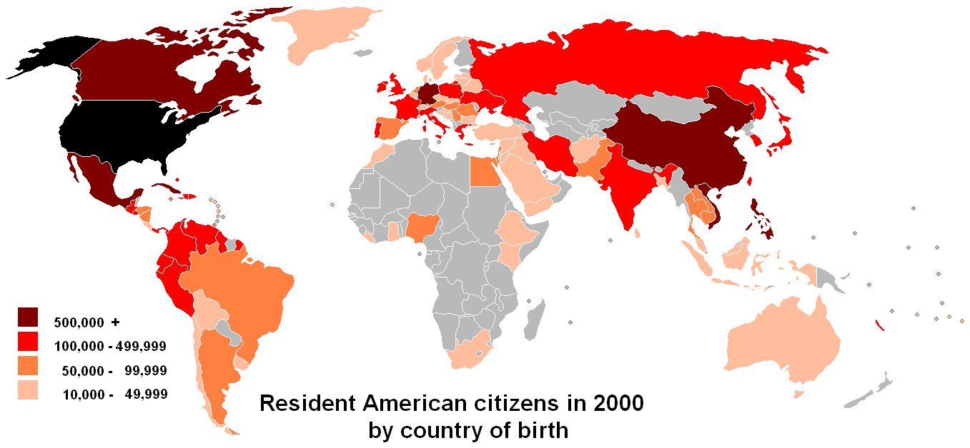 Naturalised foreign-born resident US citizens enumerated in the 2000 Census